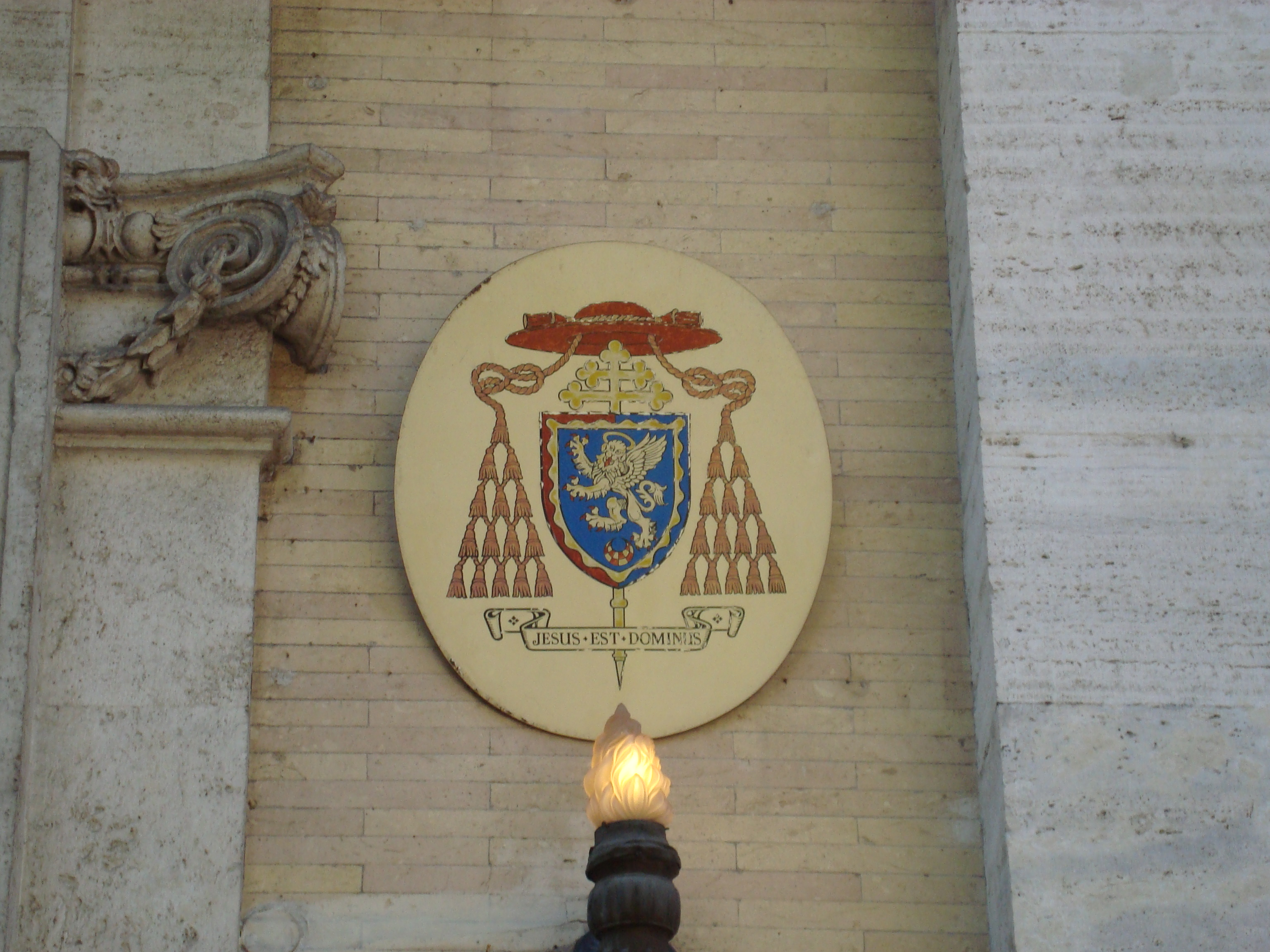 Moto of cardinal Aloysius Ambrozic